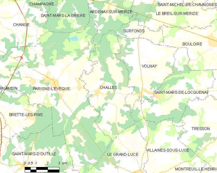 Map of French municipality